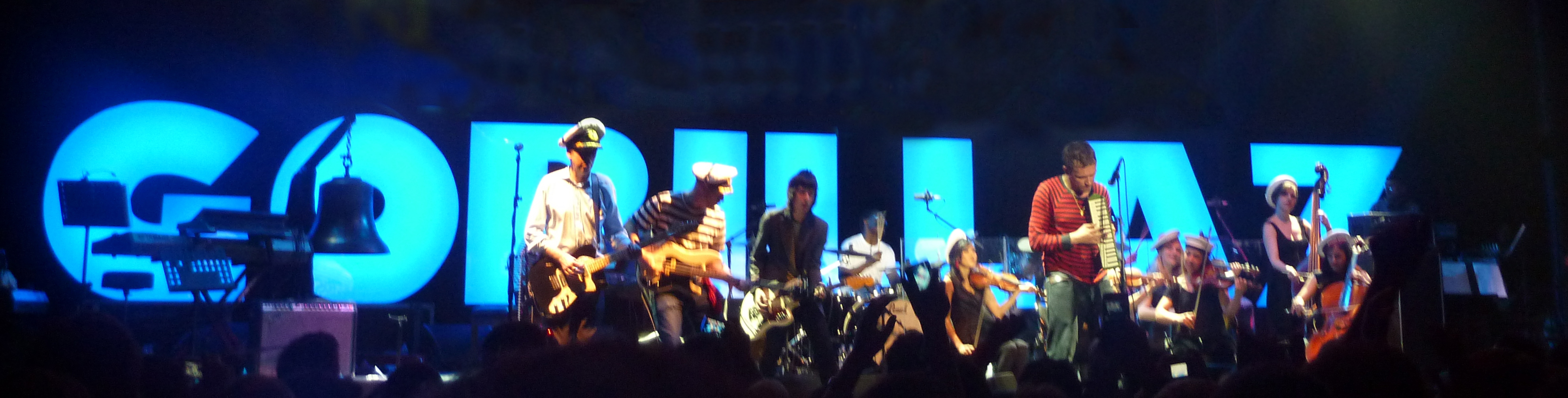 Gorillaz performing live @ The Roundhouse in London in 2010